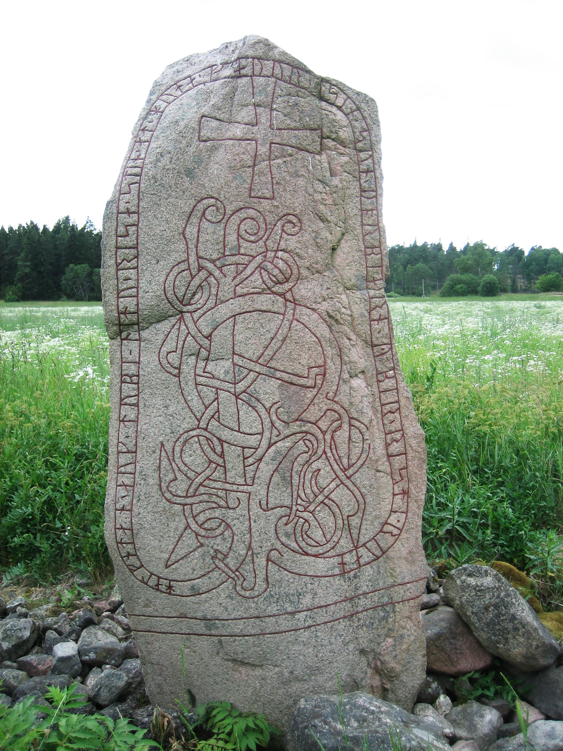 The runestone U 229 in Gällsta, Vallentuna kommun, Sweden. Photo by the uploader.